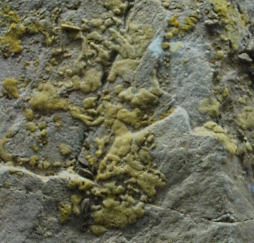 Macedonian Museum of Natural History in Skopje, Macedonia